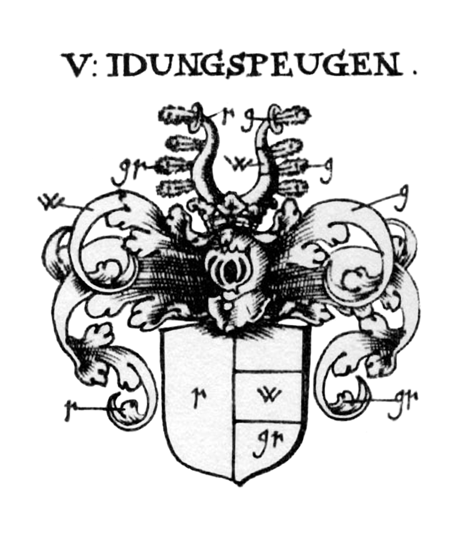 Coat of arms of Idungspeugen